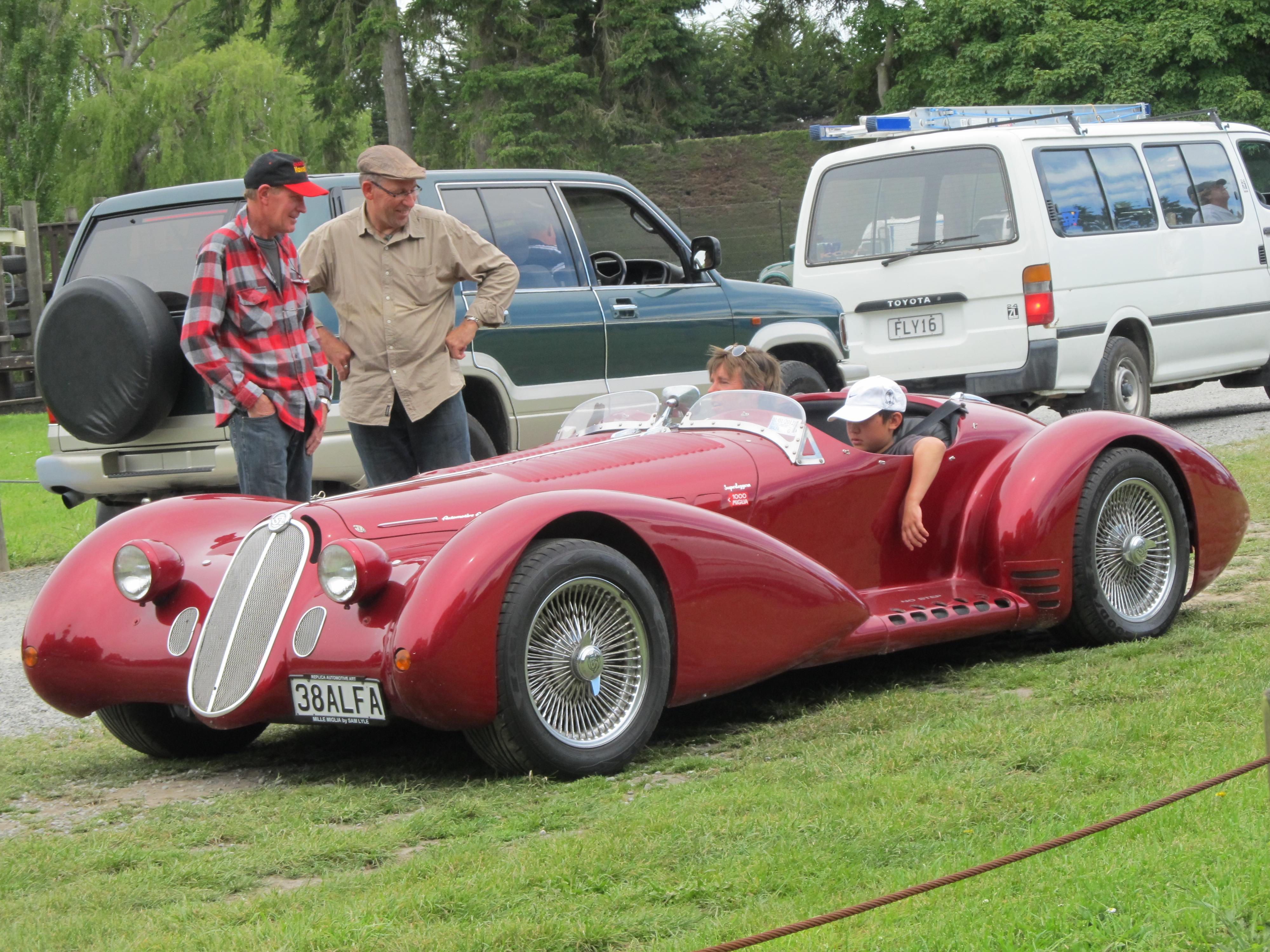 38 ALFA This attracted so much attention, as you can see here! According to CarJam, it has a 3.0 litre motor in it, possibly from another Alfa? I only briefly got a photo, as the driver had stopped to talk to these men, but it turned out okay. The kid looks pretty bored - I wouldn't be if I were a passenger in this! Sounded like an animal!